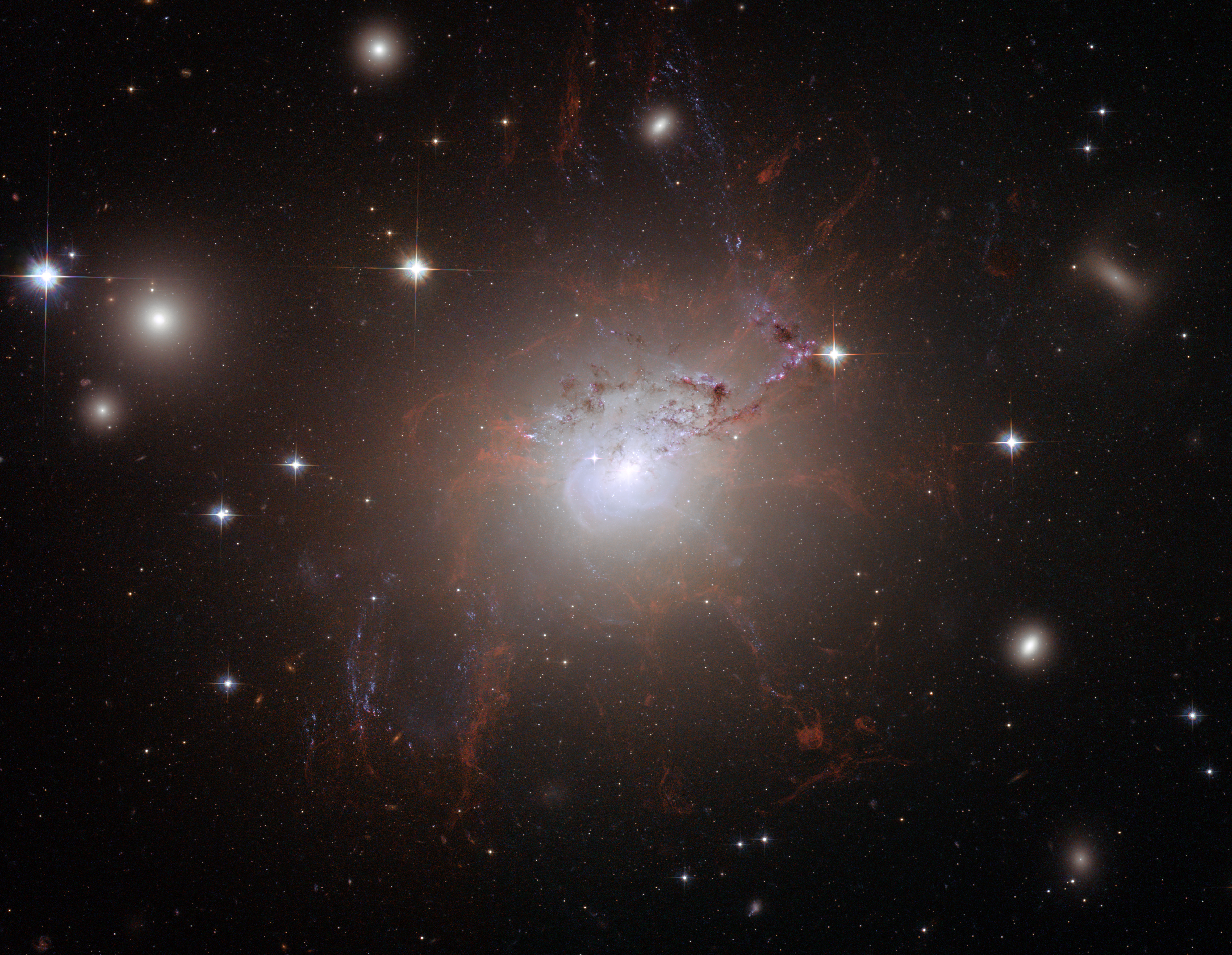 This Hubble Space Telescope image of galaxy NGC 1275 reveals the fine, thread-like filamentary structures in the gas surrounding the galaxy. The red filaments are composed of cool gas being suspended by a magnetic field, and are surrounded by the 100-million-degree Fahrenheit hot gas in the center of the Perseus galaxy cluster. The filaments are dramatic markers of the feedback process through which energy is transferred from the central massive black hole to the surrounding gas. The filaments originate when cool gas is transported from the center of the galaxy by radio bubbles that rise in the hot interstellar gas. At a distance of 230 million light-years, NGC 1275 is one of the closest giant elliptical galaxies and lies at the center of the Perseus cluster of galaxies. The galaxy was photographed in July and August 2006 with the Advanced Camera for Surveys in three color filters. Coordinates Position (RA): 3 19 48.39 Position (Dec): 41° 30' 41.00" Field of view: 3.86 x 2.99 arcminutes Orientation: North is 8.5° left of vertical Colours & filters Band Wavelength Telescope Optical B 435 nm Hubble Space Telescope ACS Optical V 550 nm Hubble Space Telescope ACS Optical R 625 nm Hubble Space Telescope ACS .